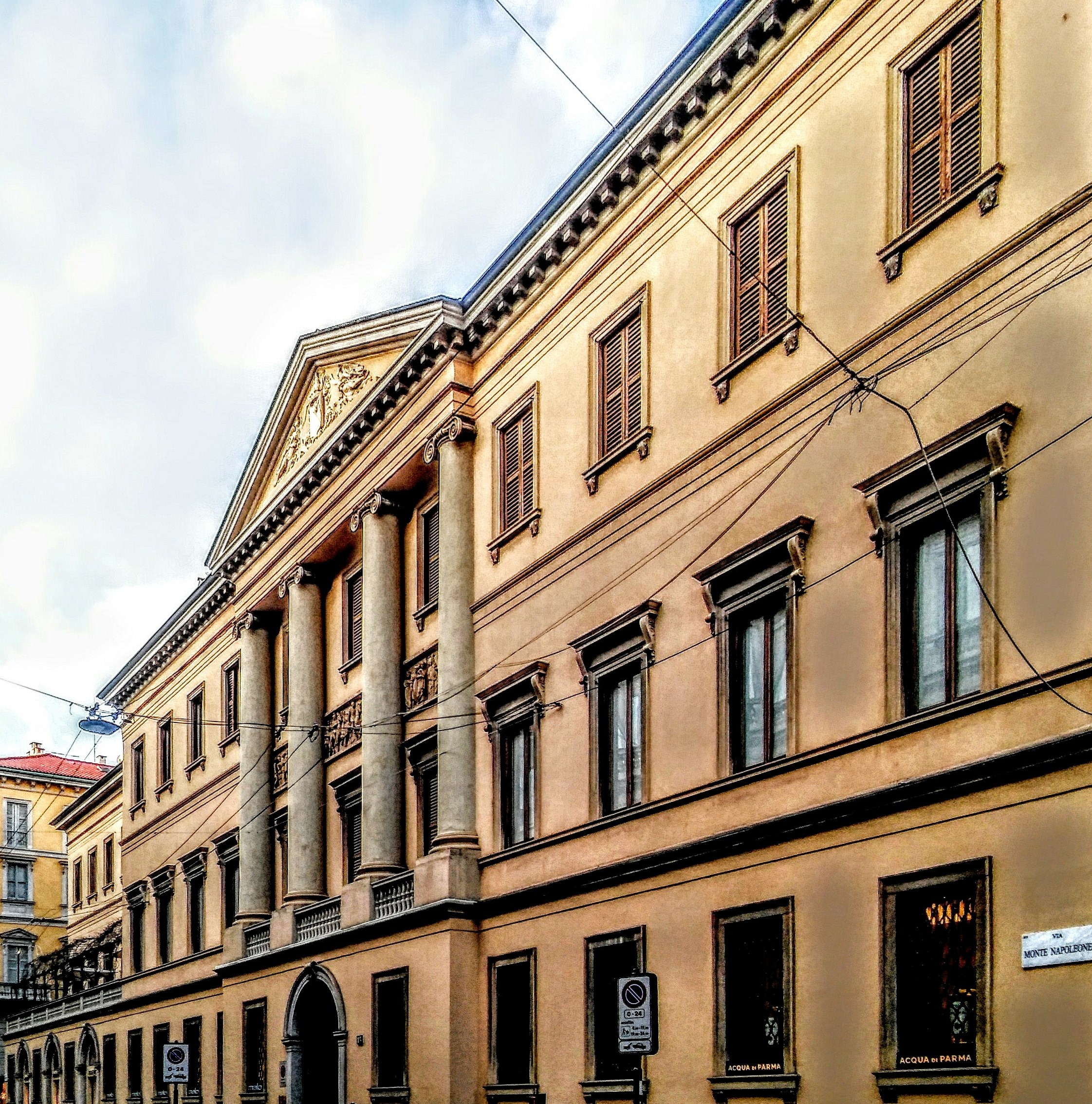 View of palazzo Melzi di Cusano, via Montenapoleone, Milan